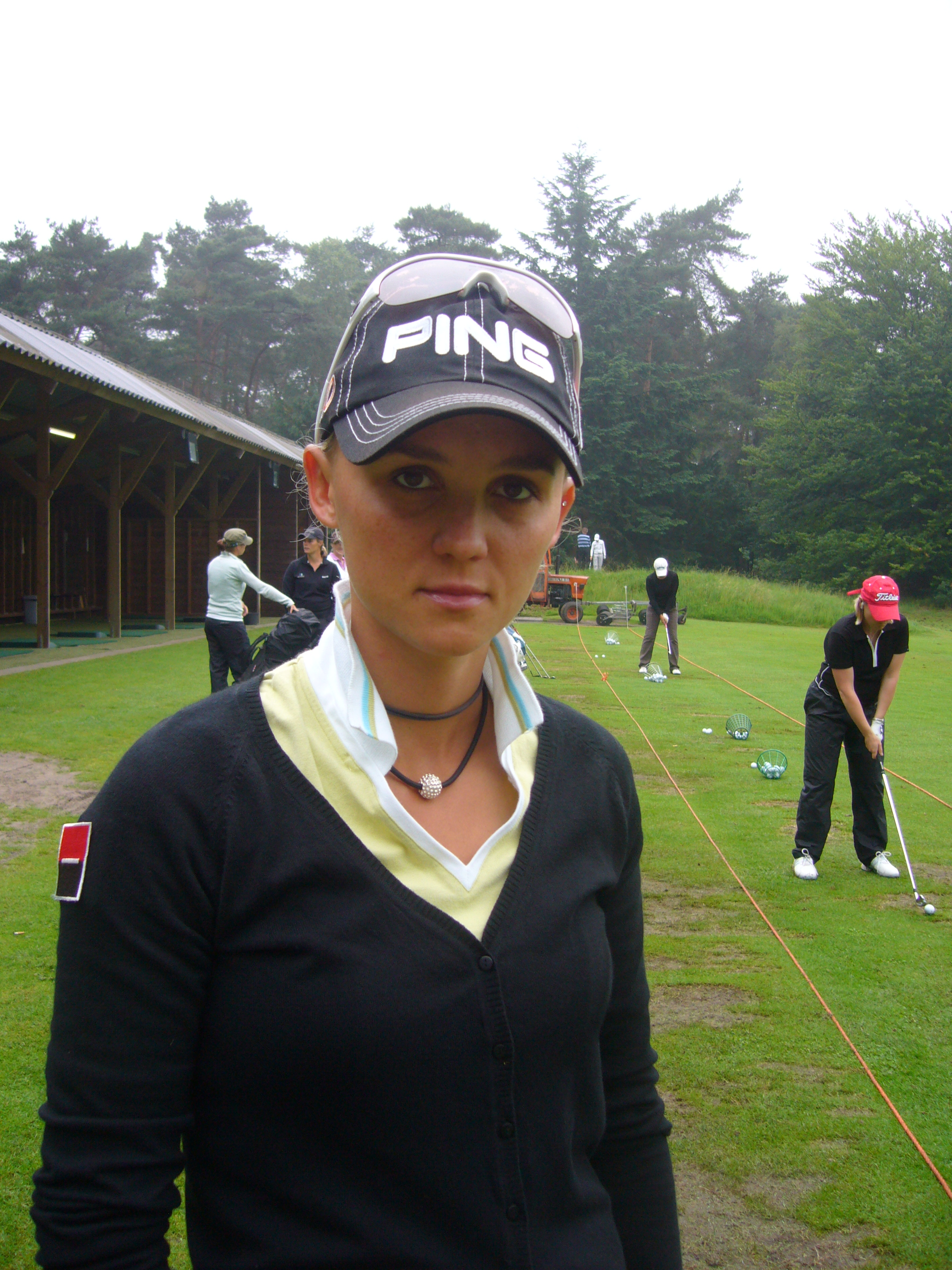 Cassandra Kirkland, French golfprofessional